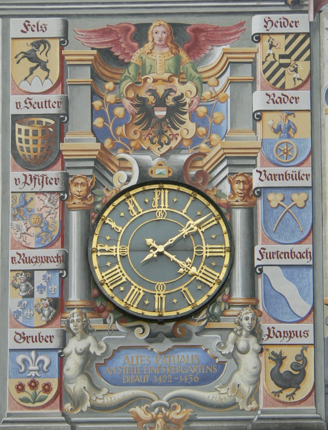 Lindau, Germany, city hall